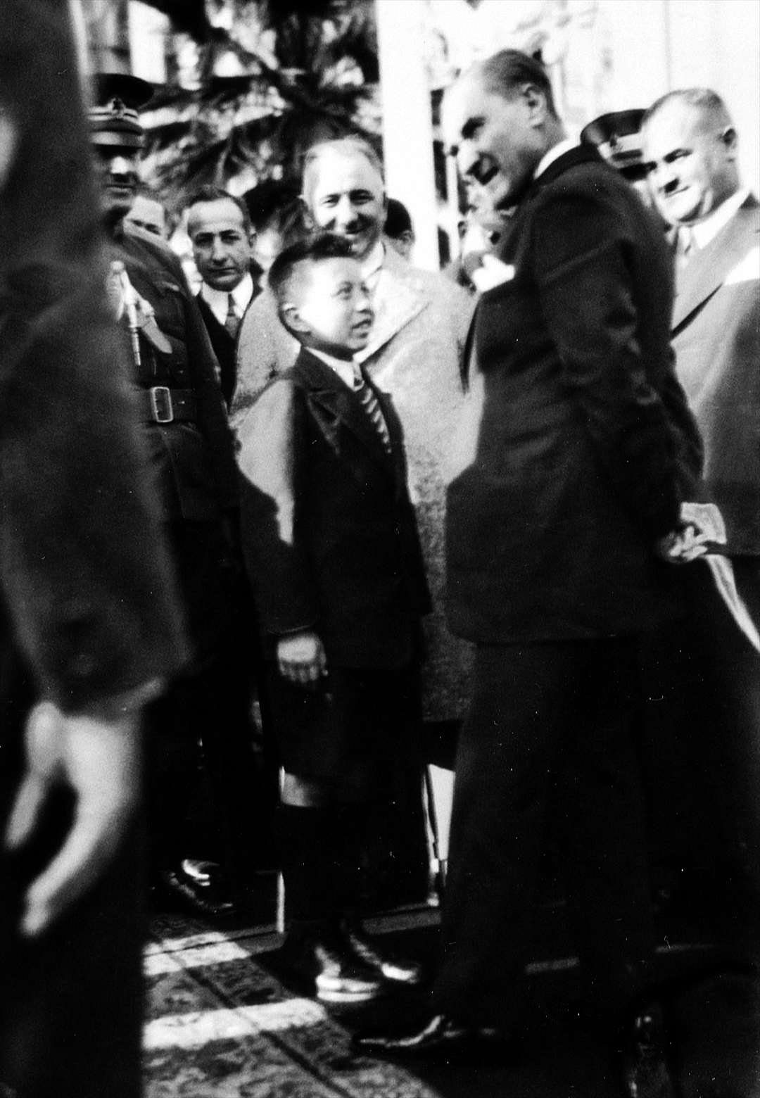 Adopted son of Mustafa Kemal, Sığırtmaç Mustafa of Yalova (Mustafa Demir, 1918 - 1987)